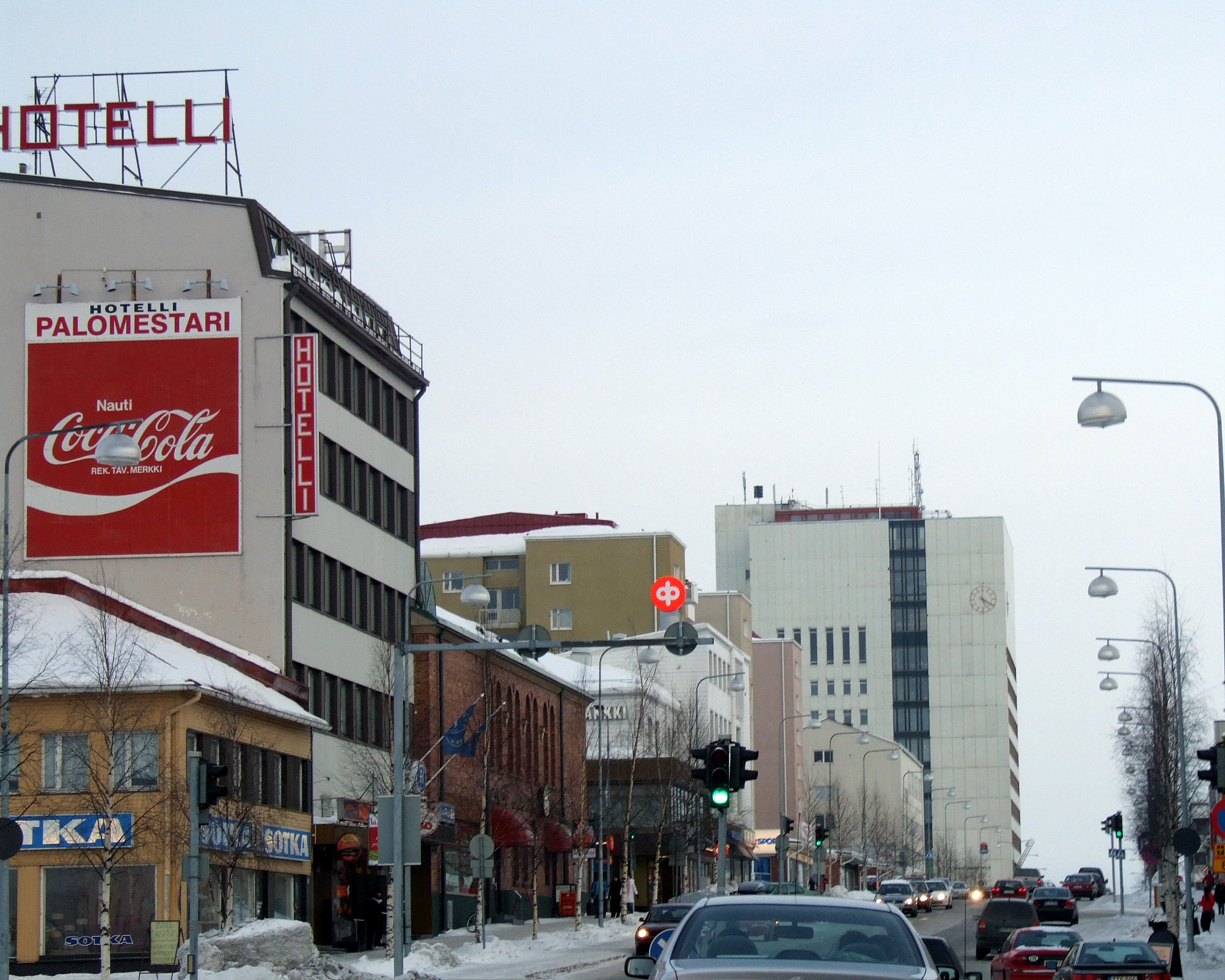 Valtakatu is the main street of Kemi, Finland. The white tall building in the end of the street is the Kemi Town Hall.